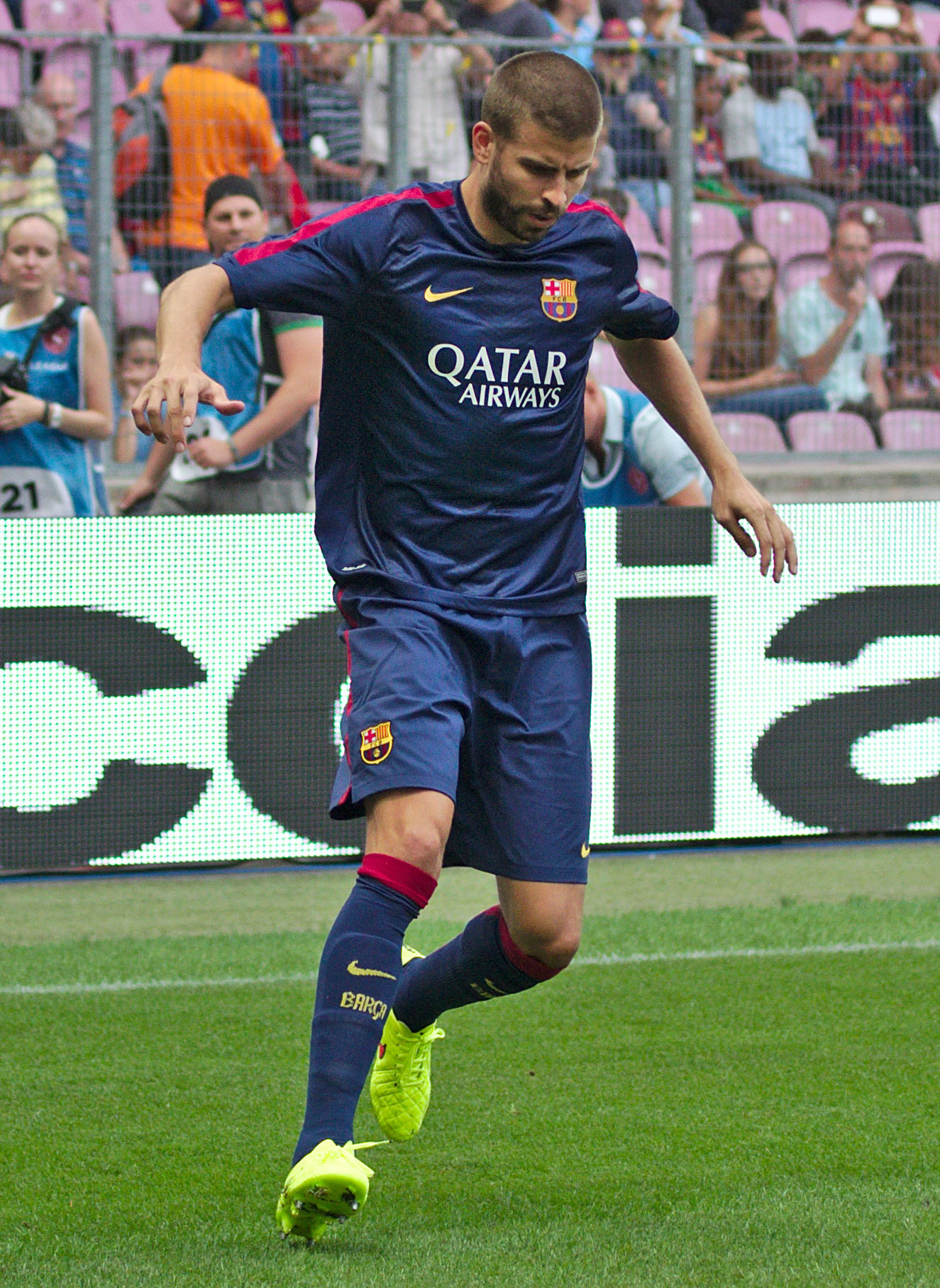 Barça - Napoli - 20140806 - Echauffement